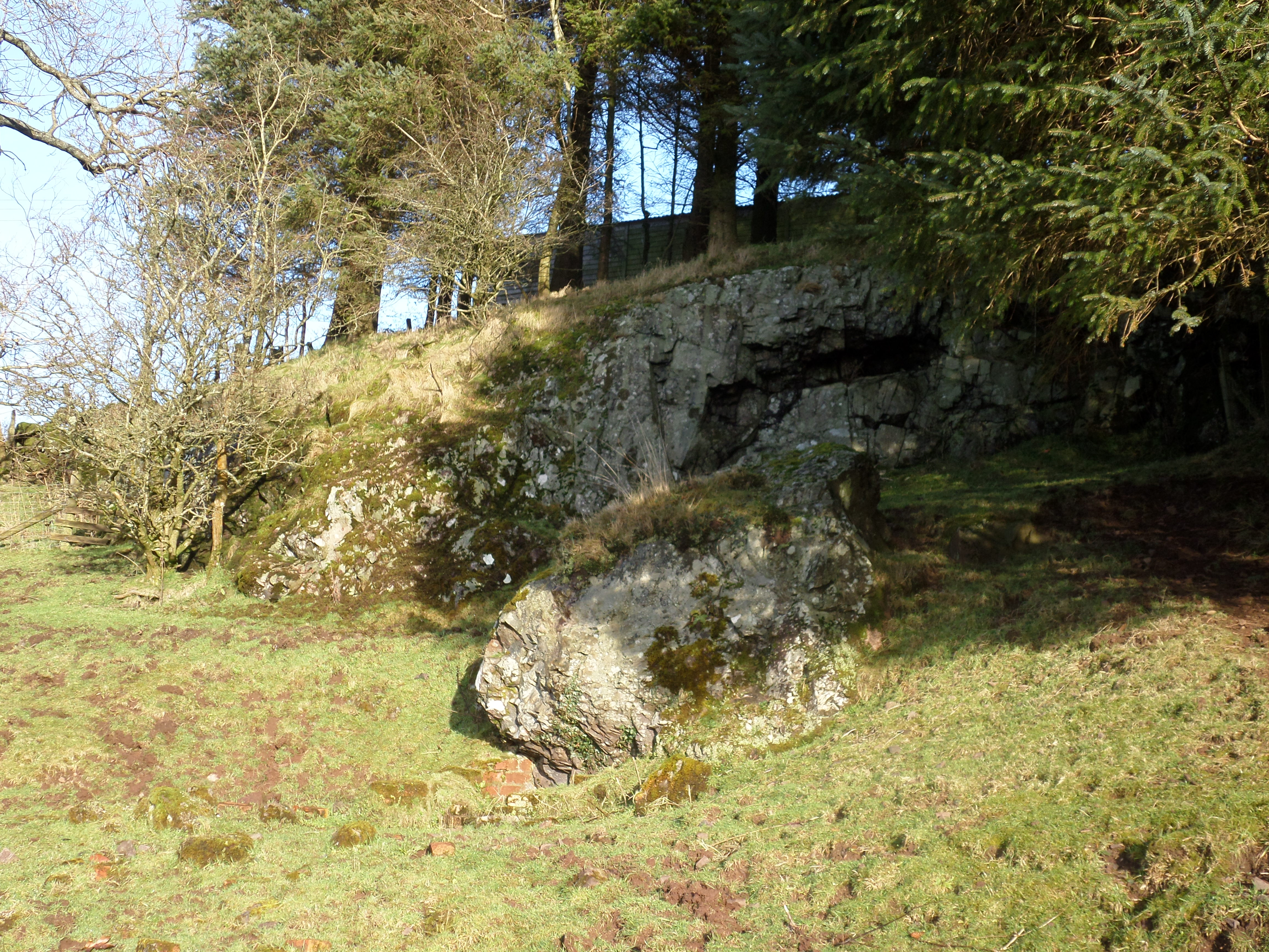 St Fillan's Well and spring site, Kilallan, Renfrewshire, Scotland. Said to cure young children of rickets.